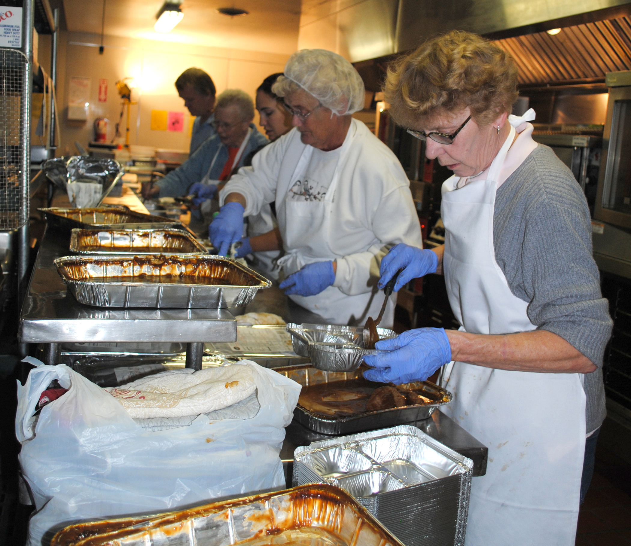 Nancy Wilson, foreground, Meals on Wheels program manager, along with other volunteers who work at the Great Falls Community Food Bank, prepare gravy to be used the next day to make the Thanksgiving meal.